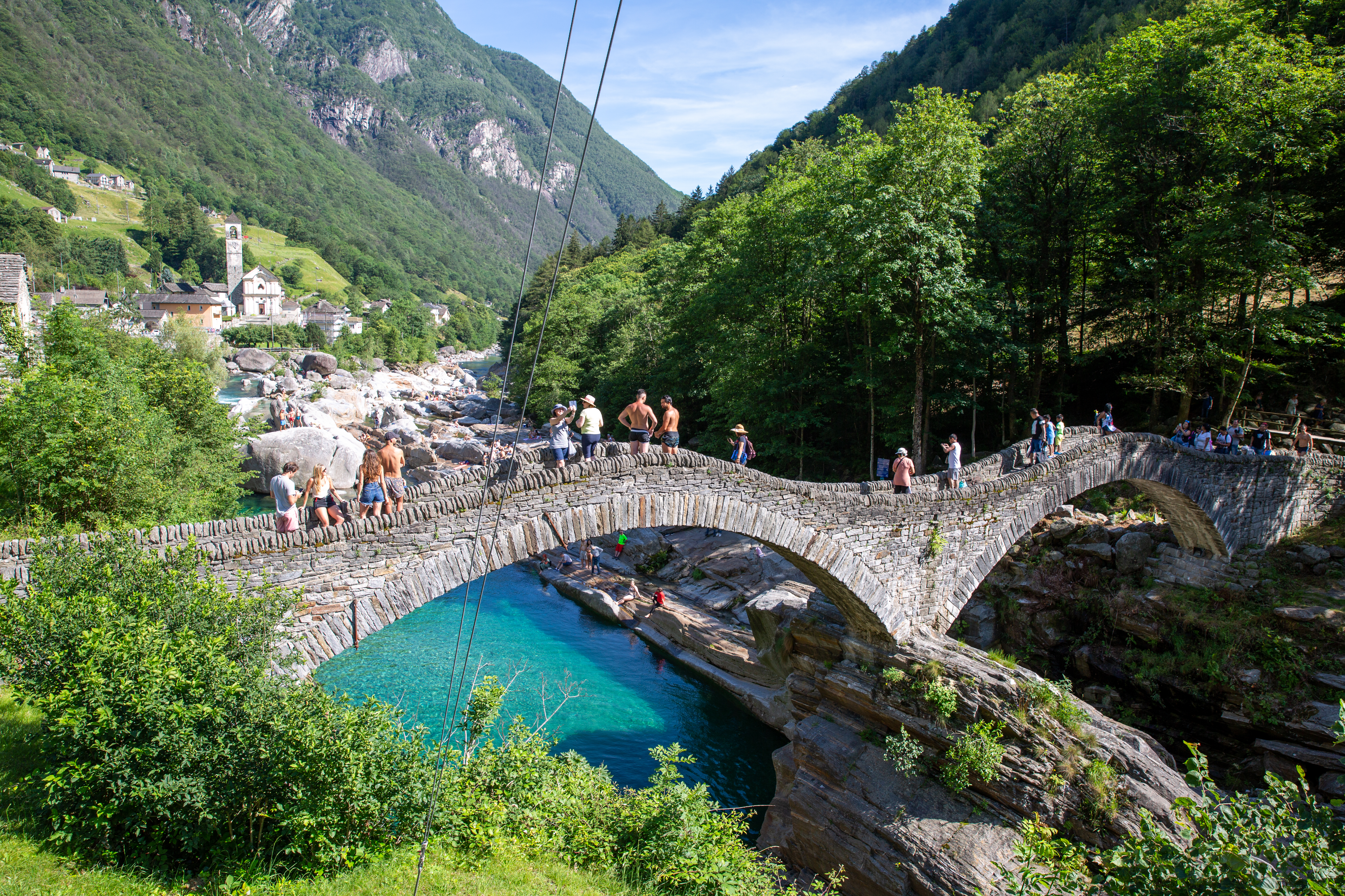 Ponte dei salti